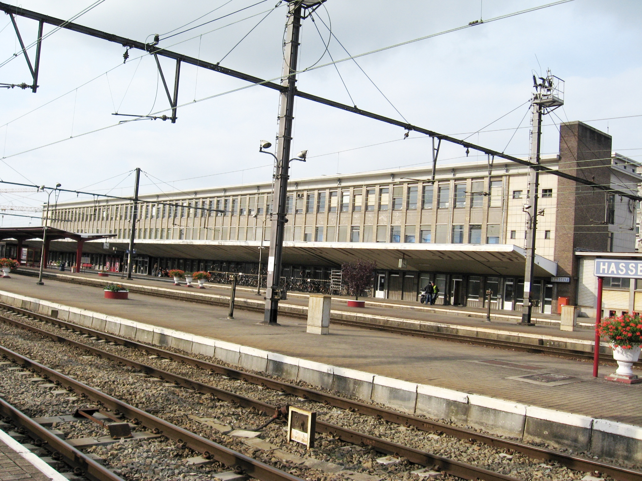 Train station of Hasselt, Limburg, Belgium